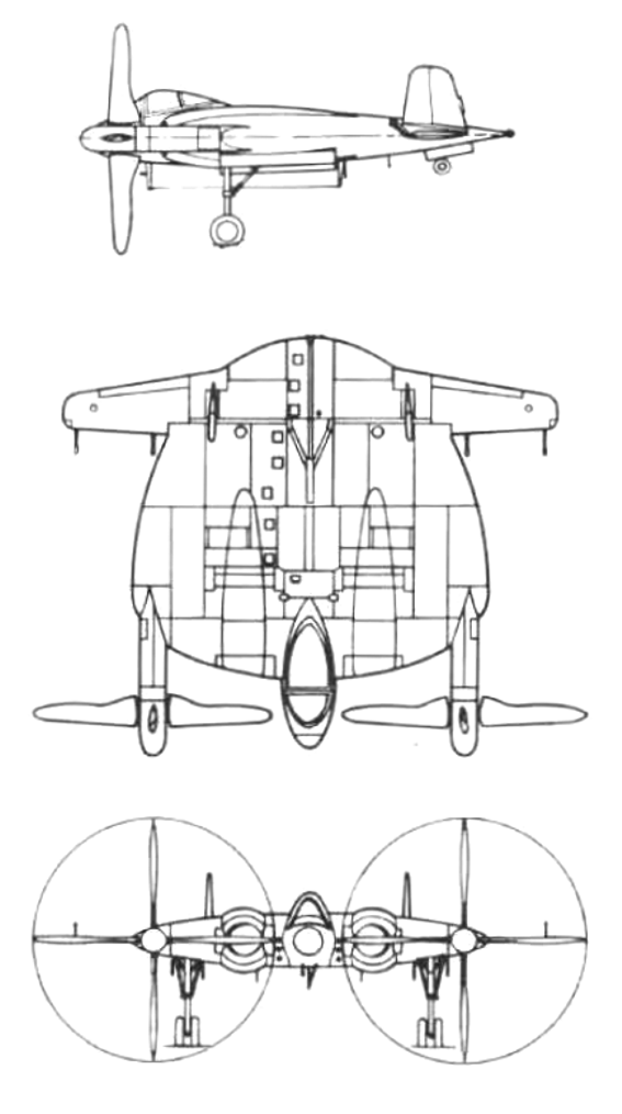 Line drawing of the U.S. Navy Vought XF5U-1 Flying Flapjack experimental fighter aircraft.